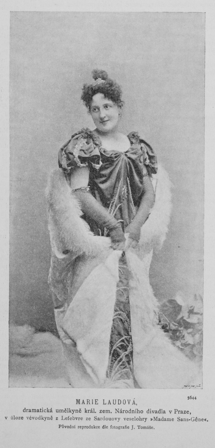 Portrait of Marie Laudová (1869-1931), Czech actress.